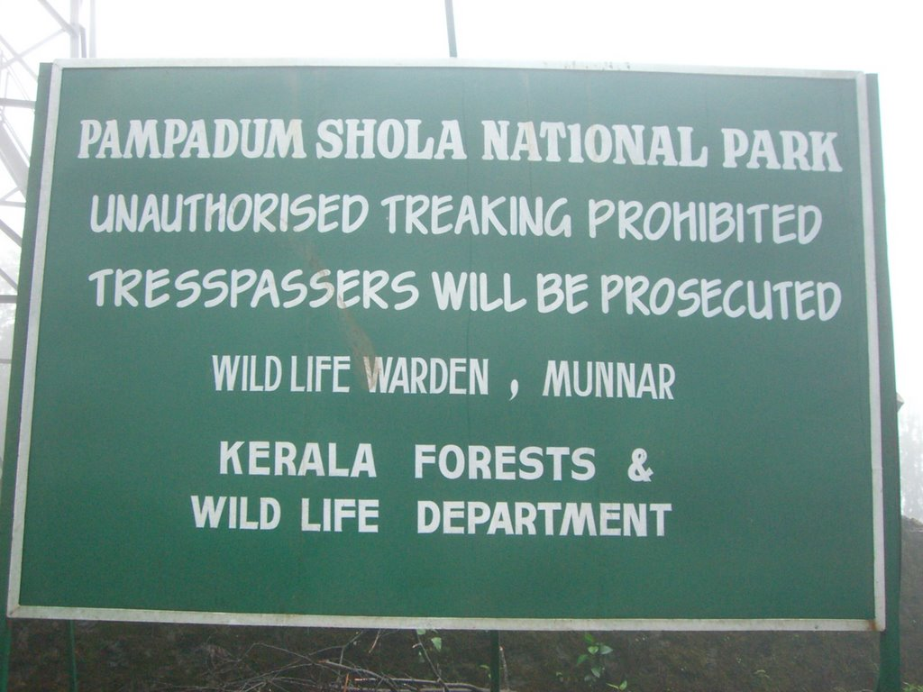 Sign at Vandaravu observation tower